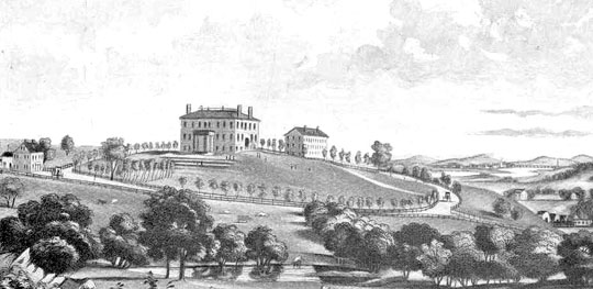 An early view of Tufts College.